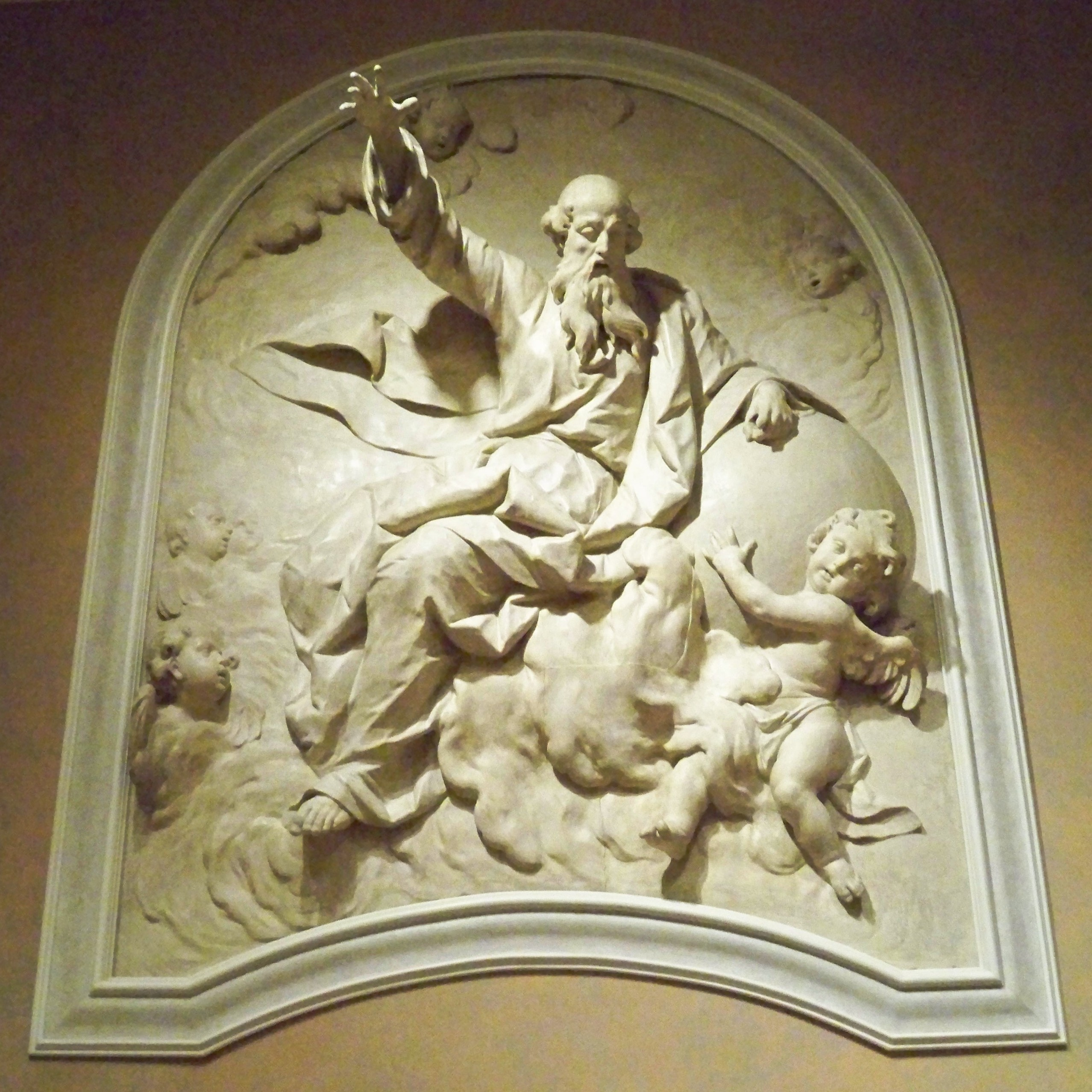 God the Father, pine relief painted white, follower of Ignaz Gunther in South Germany from 1770-80, at the Metropolitan Museum of Art.